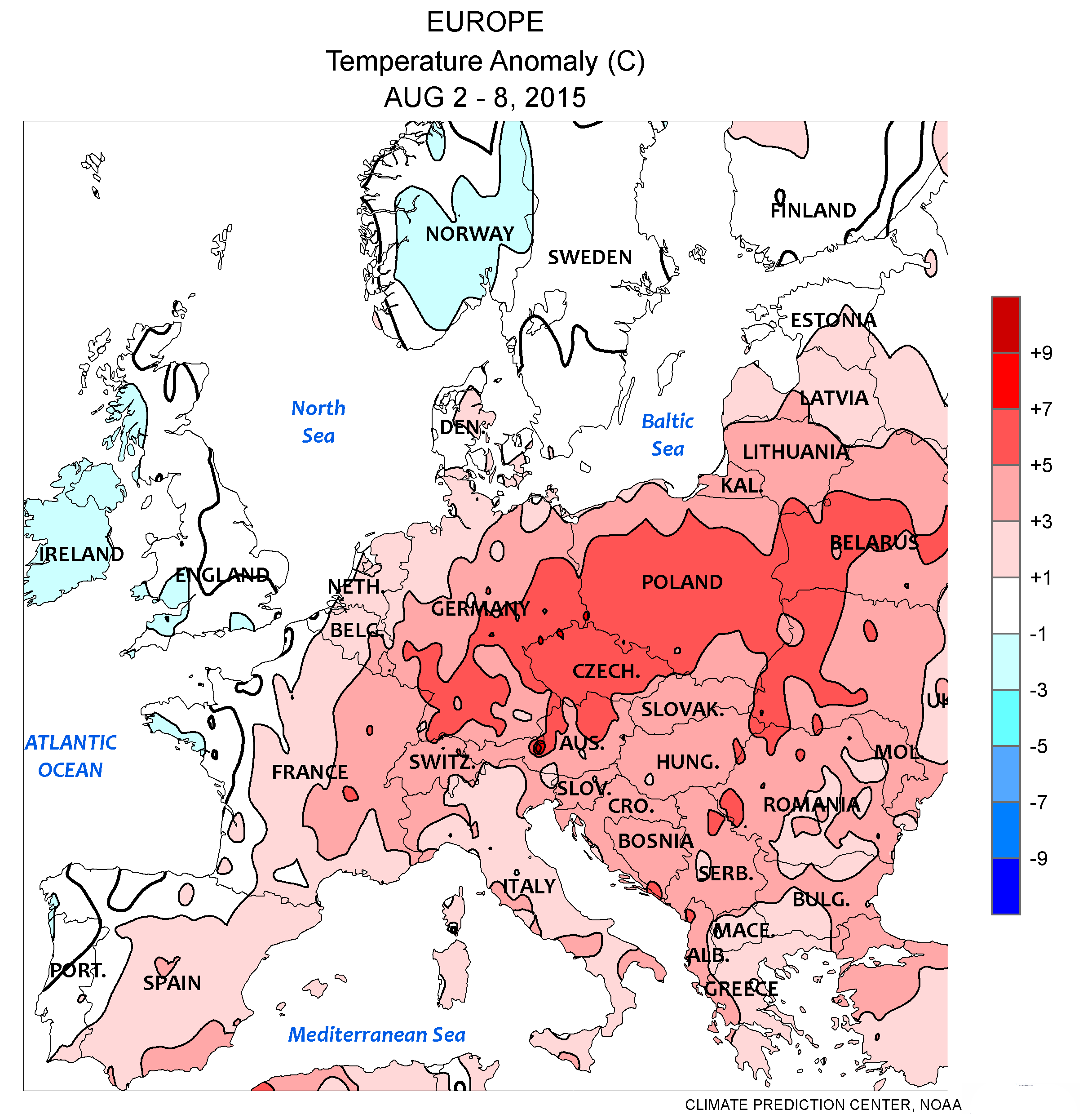 Europe: Temperature_anomaly August 2 - 8, 2015, computer generated colours, based on preliminary data